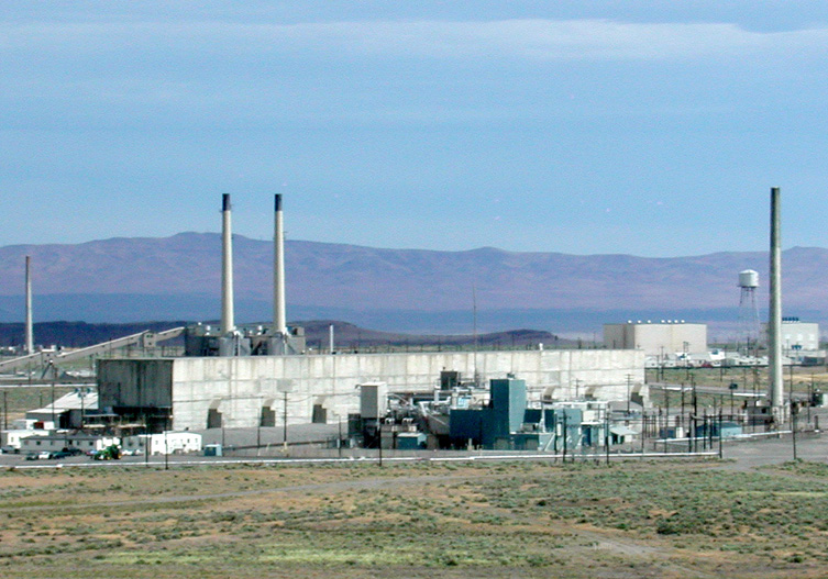 Hanford’s U Plant was the third plutonium processing canyon built at the Site. Stretching 810 feet long, 66 feet wide, and 77 feet high, it was constructed in 1944. While originally designed to perform the chemical separations activities needed to extract plutonium from irradiated fuel rods, it was determined after construction was complete that the first two canyons would be able to process enough plutonium without needing to use U Plant for the same purpose. As a result, U Plant became a facility where T Plant and B Plant workers were trained before they were permanently assigned to either of those canyons. In 1952, the U Plant was given a new mission which was to recover uranium from the waste generated in the plutonium extraction process. For six years, U Plant crews removed uranium from the chemical separations process waste and then transferred that uranium to a support facility called 224-U/UA (224-U/UA was also called the UO3 or Uranium Trioxide Facility).